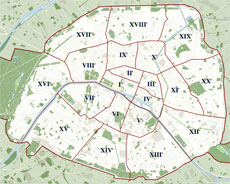 Image taken from Image:Paris plan wee green jms.jpg, uploaded by user:ThePromenader with the following description: my own work - J.M. Schomburg